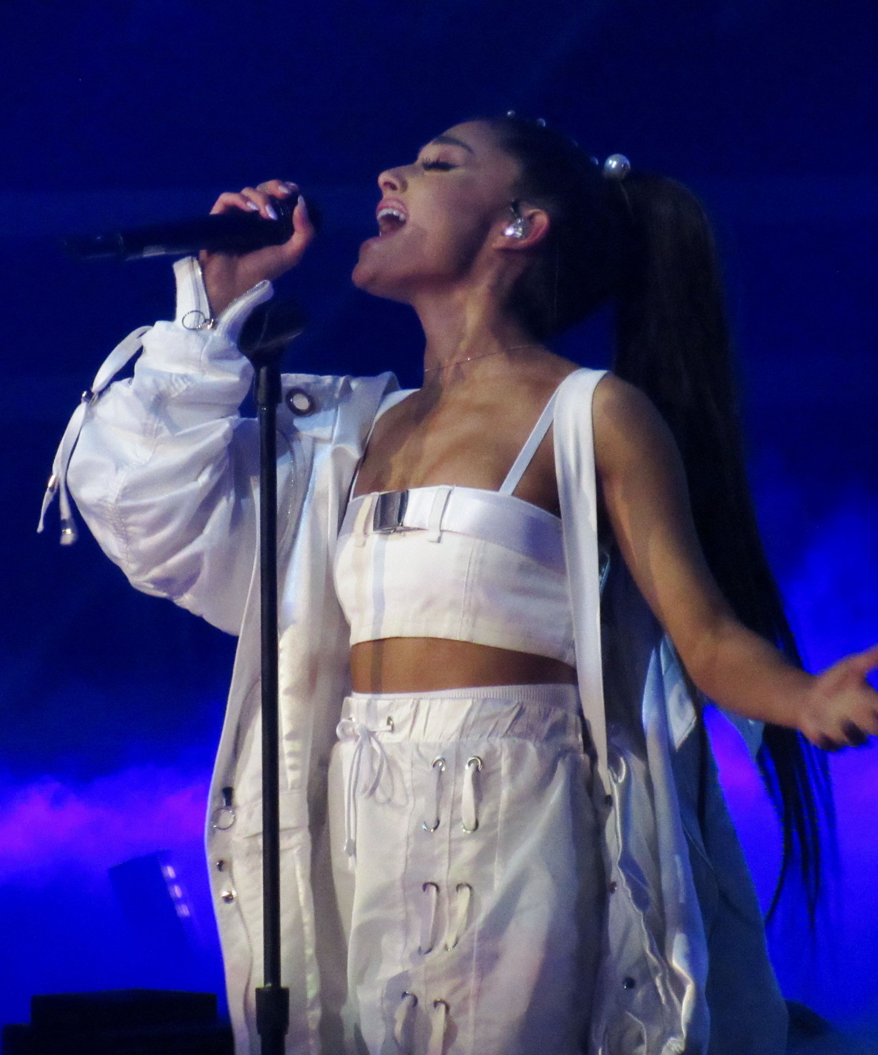 Ariana Grande performing during Dangerous Woman Tour on February 19, 2017.